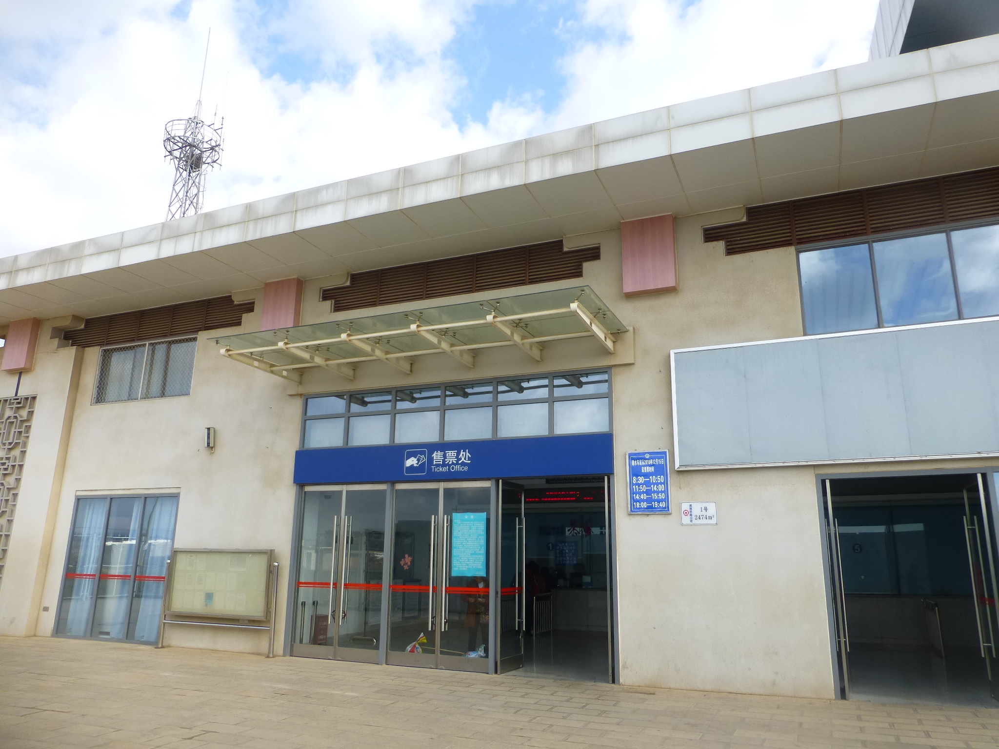 The new Jianshui Railway Station, on the Yuxi-Mengzi Railway, and its vicinity.